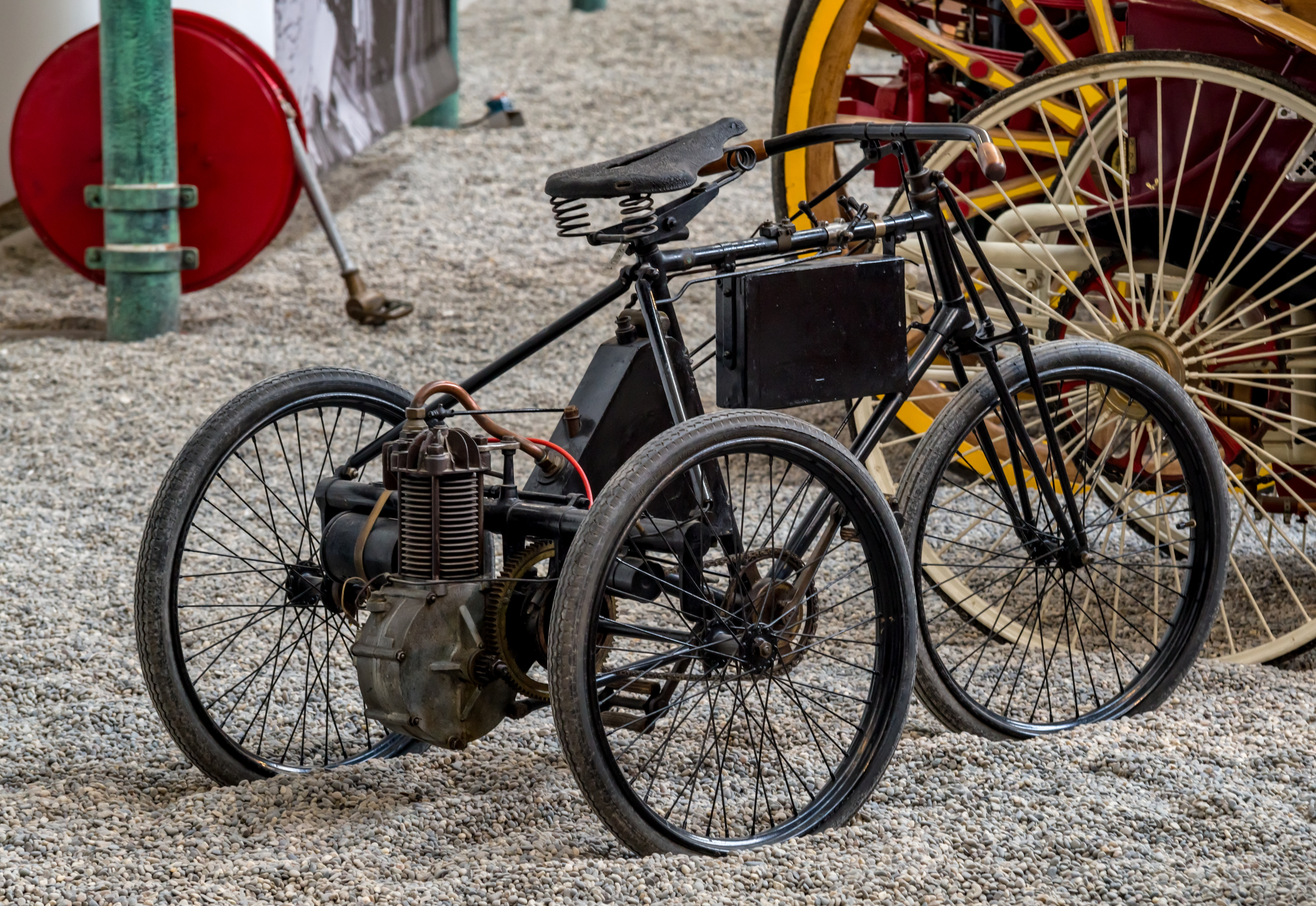 pictures from the Cité de l’Automobile – Musée National – Collection Schlump in Mulhouse, France ptictures from the 10. may 2018